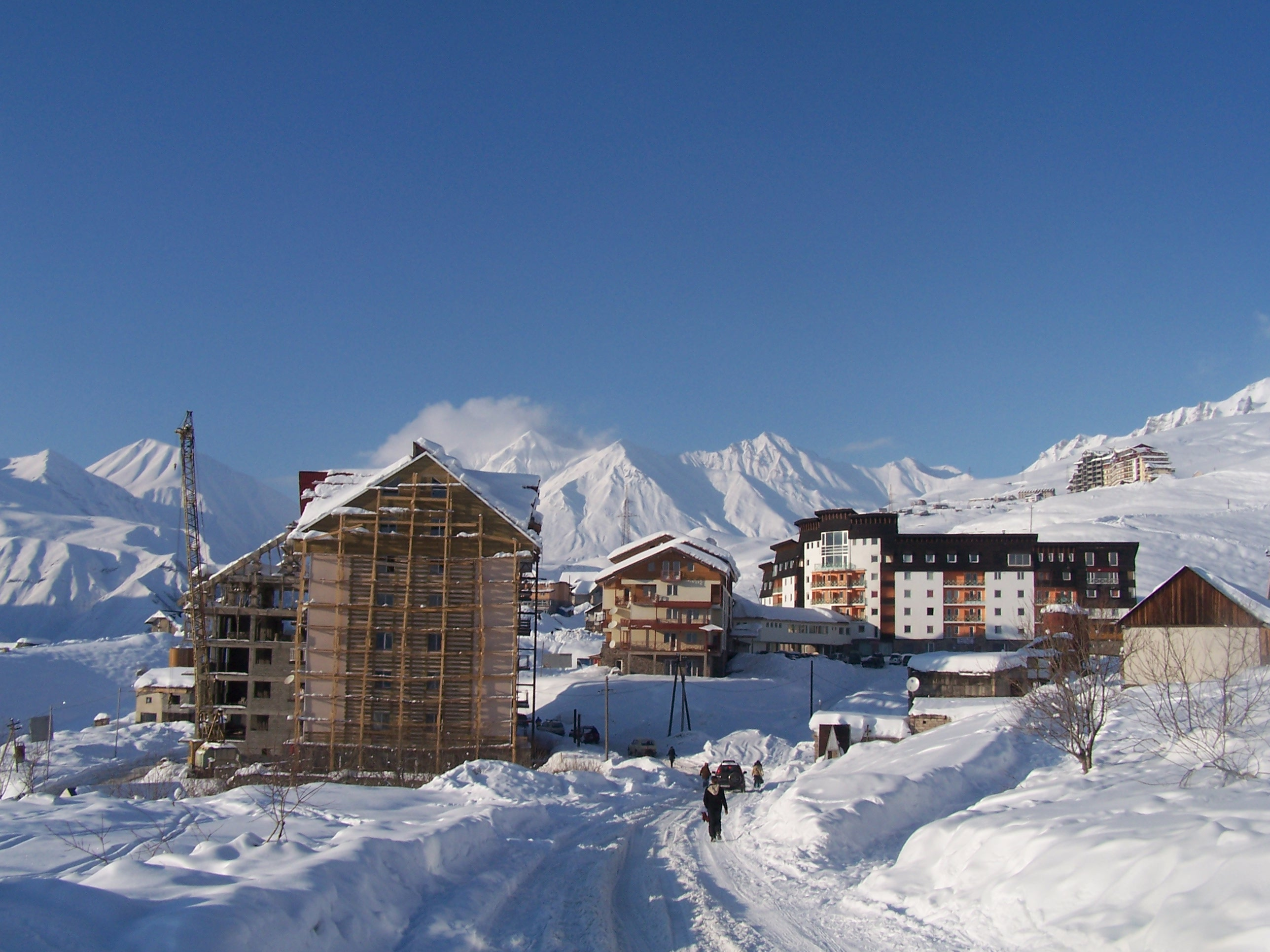 Gudauri